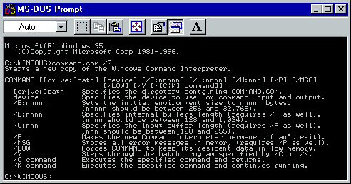 Microsoft Windows 95 Version 4.00.1111 MS-DOS Prompt